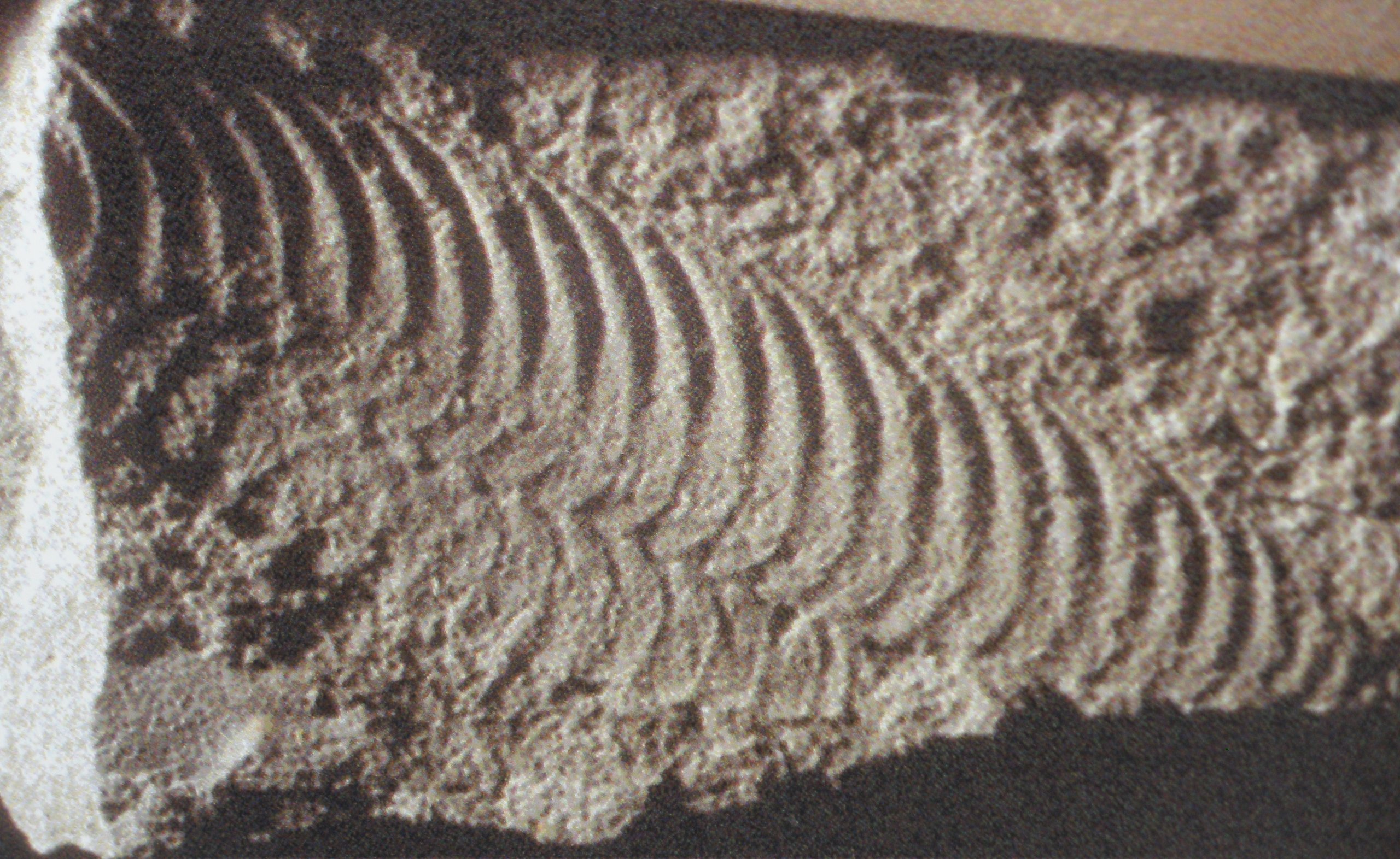 Crop of file in filename